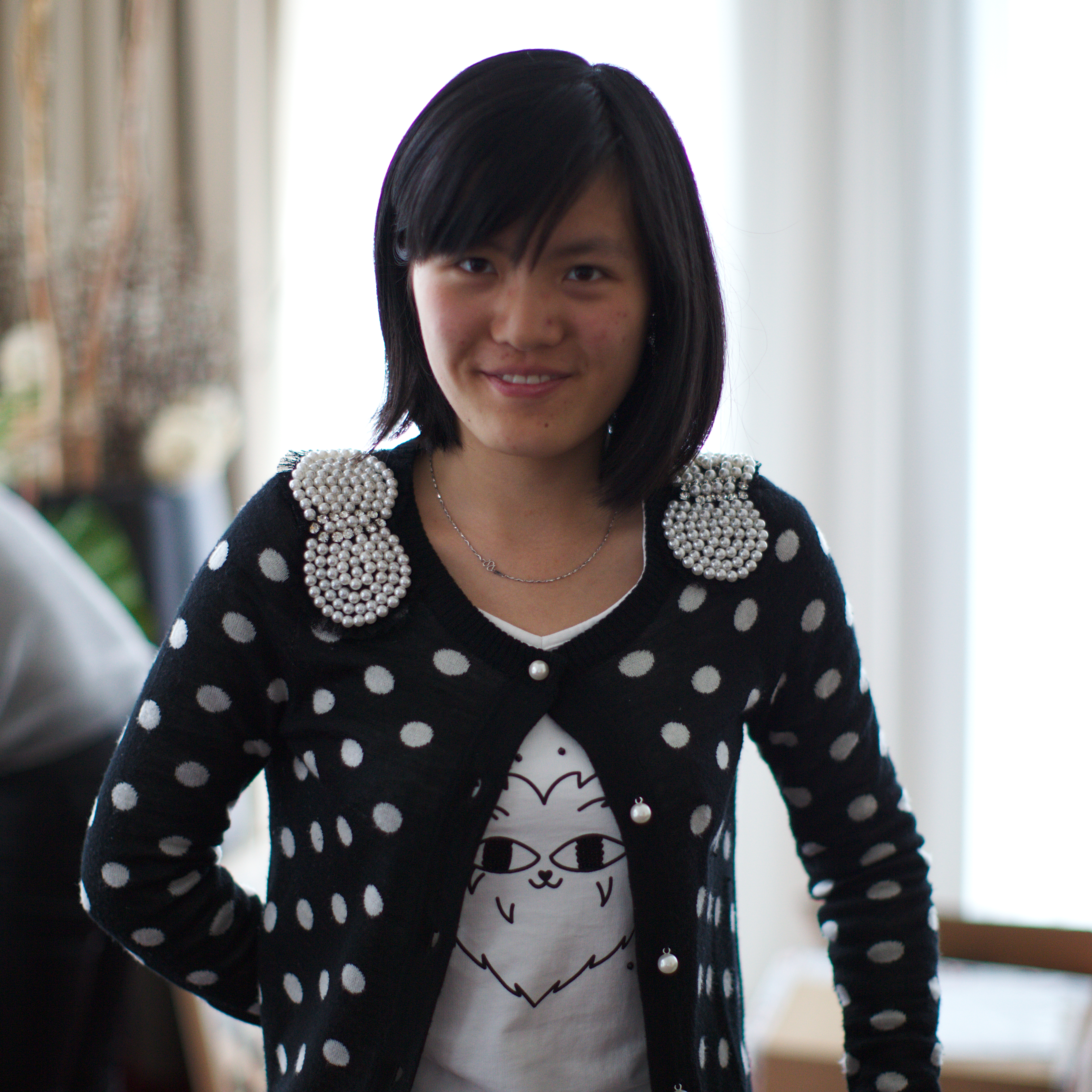 Yifan Hou (cropped)